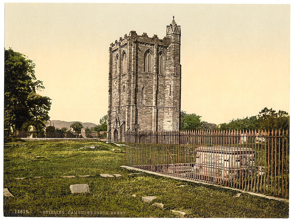 [Cambuskenneth Abbey, Stirling, Scotland] [between ca. 1890 and ca. 1900]. 1 photomechanical print : photochrom, color. Notes: Title from the Detroit Publishing Co., catalogue J--foreign section. Detroit, Mich. : Detroit Photographic Company, 1905. Print no. "13016". Forms part of: Views of landscape and architecture in Scotland in the Photochrom print collection. Subjects: Scotland--Stirling. Format: Photochrom prints--Color--1890-1900. Rights Info: No known restrictions on reproduction. Repository: Library of Congress, Prints and Photographs Division, Washington, D.C. 20540 USA, Part Of: Views of landscape and architecture in Scotland (DLC) 2001703567 More information about the Photochrom Print Collection is available at Persistent URL: Call Number: LOT 13407, no. 164 [item]